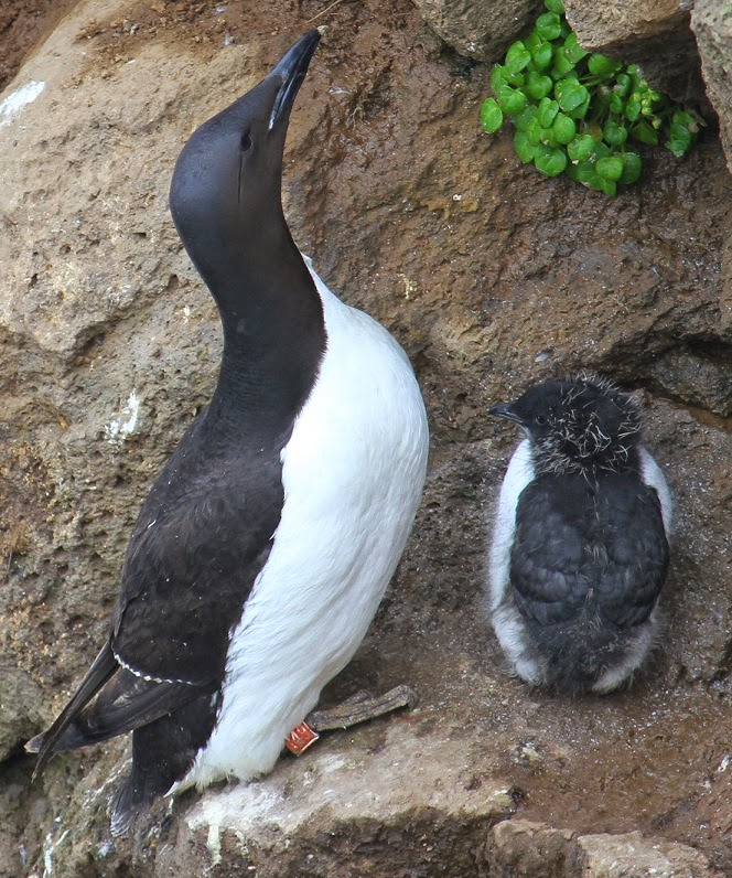 Thick-billed Murres on Buldir by Mckenzie Mudge/USFWS.